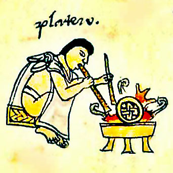 Silversmith working